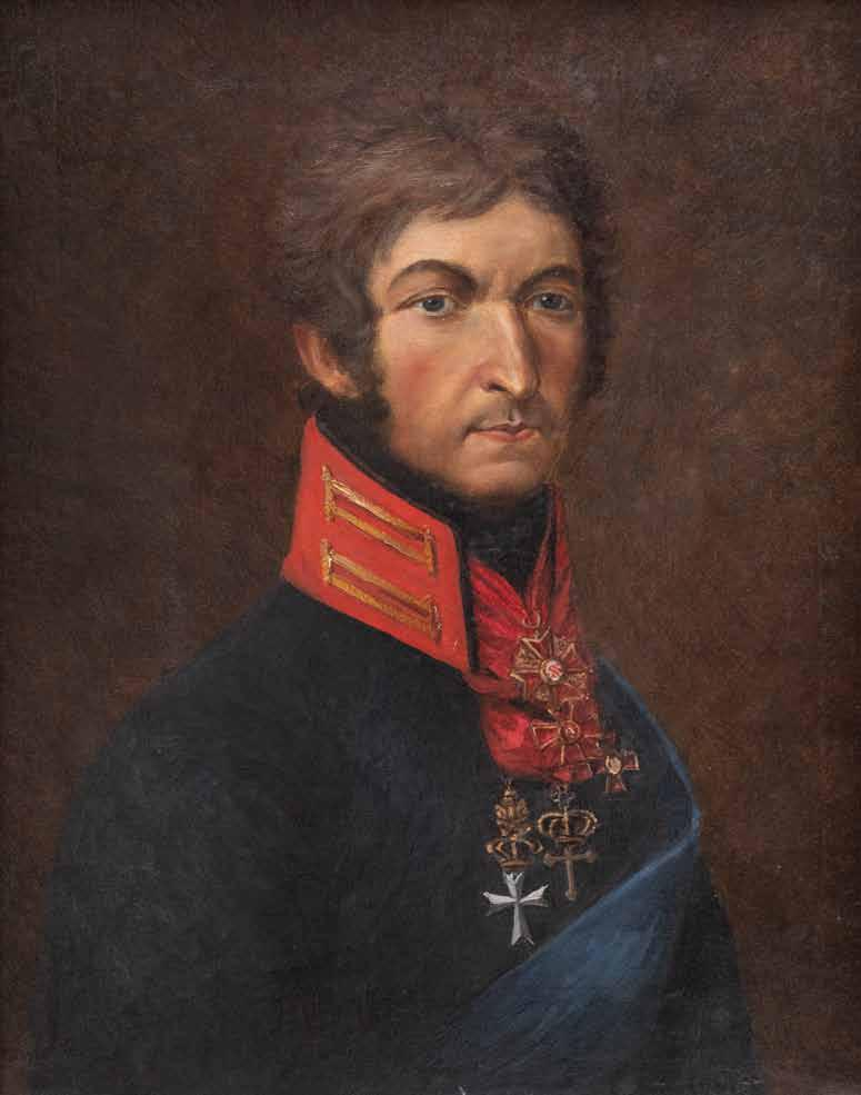 Portrait of Peter Bagration